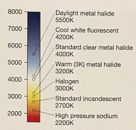 Escala Kelvin